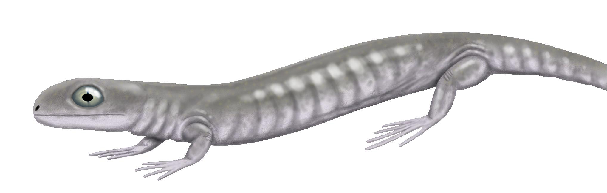 Life restoration of Utaherpeton franklini. Based on figure 6 of "The origin and early radiation of terrestrial vertebrates" by Robert L. Carroll. Journal of Paleontology 75:1202-1213